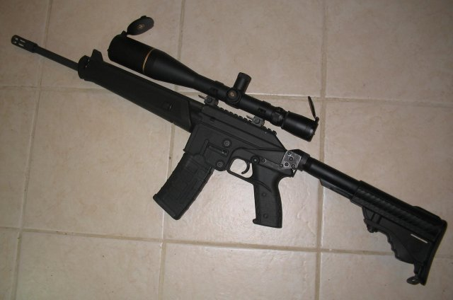 Kel-Tec SU-16C, with after-market, M-4-type collapsible stock